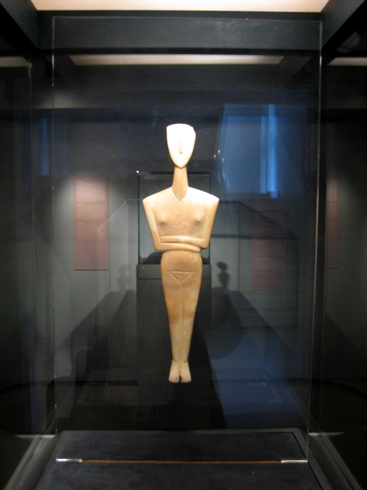 Cycladic female figurine, from Museum of Cycladic Art at Athens - Canonical type, Dokathismata variety; attribtuted to the "Ashmolean Museum Master"; EC II period, Syros phase, 2800-2300 BC, 39,1 cm, #206 in the catalogue of 1968